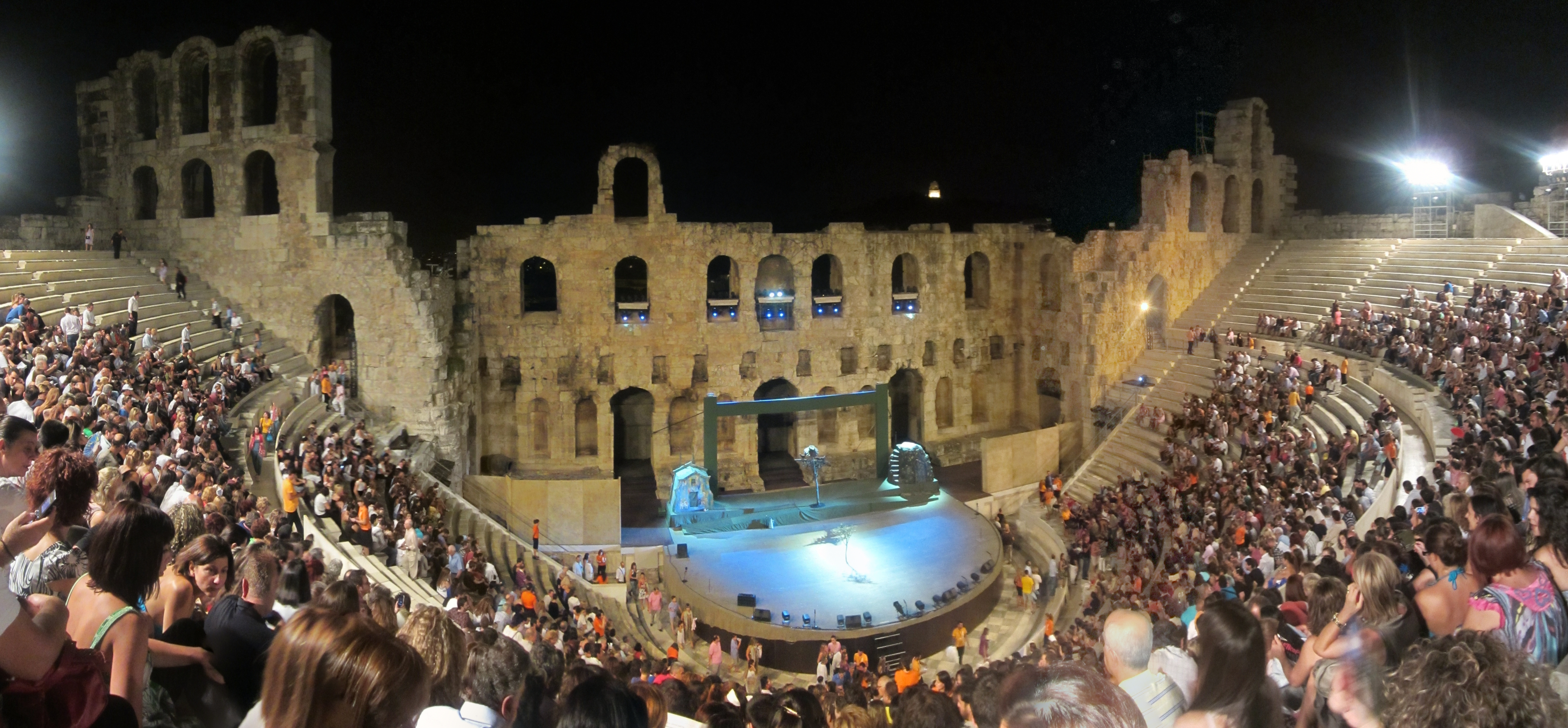 Odeon of Herodes Atticus during a night-time event.